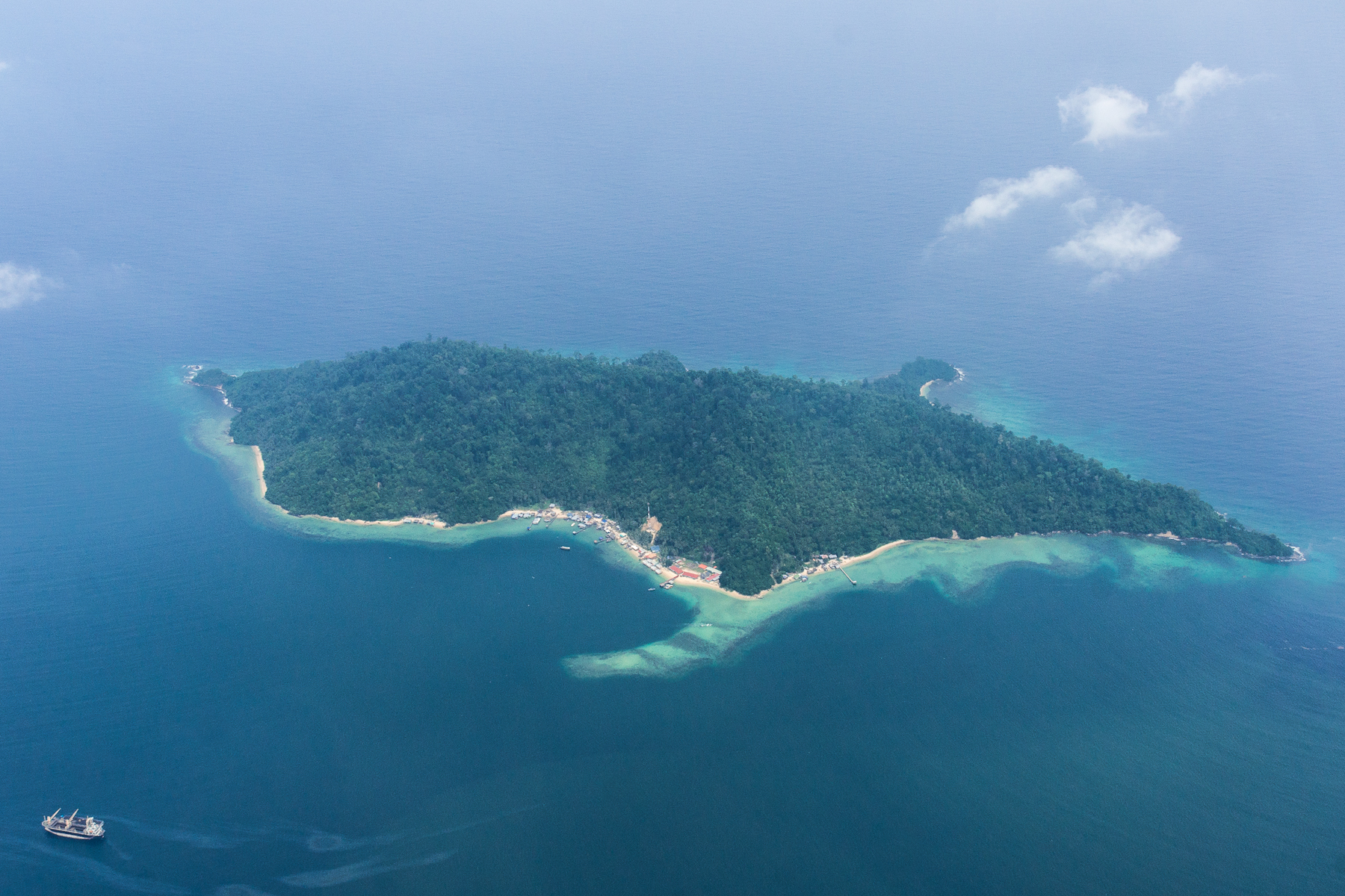 Sabah: Pulau Sapanggar, Aerial View